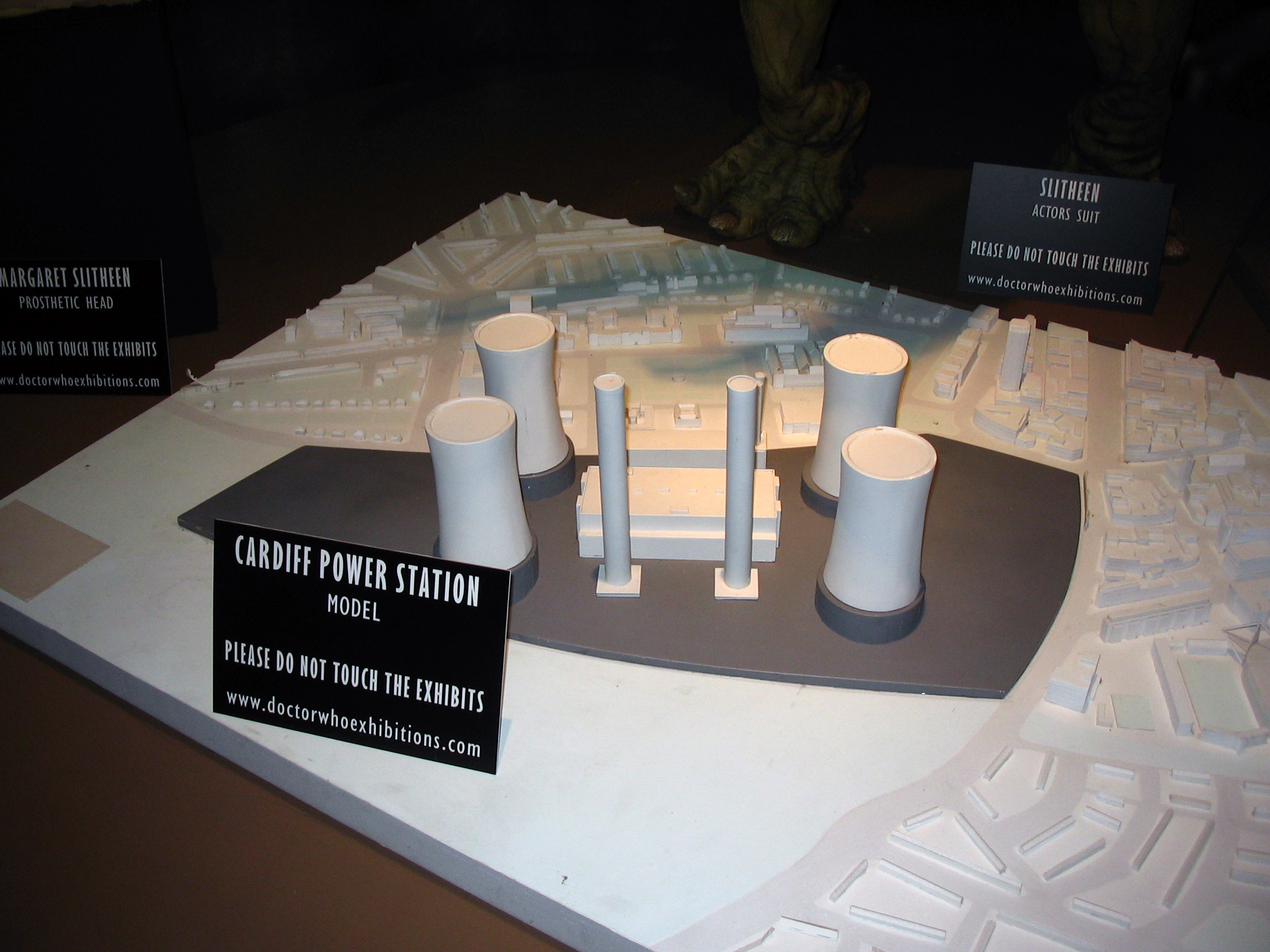 From the 2005 episode Boom Town. Doctor Who Experience